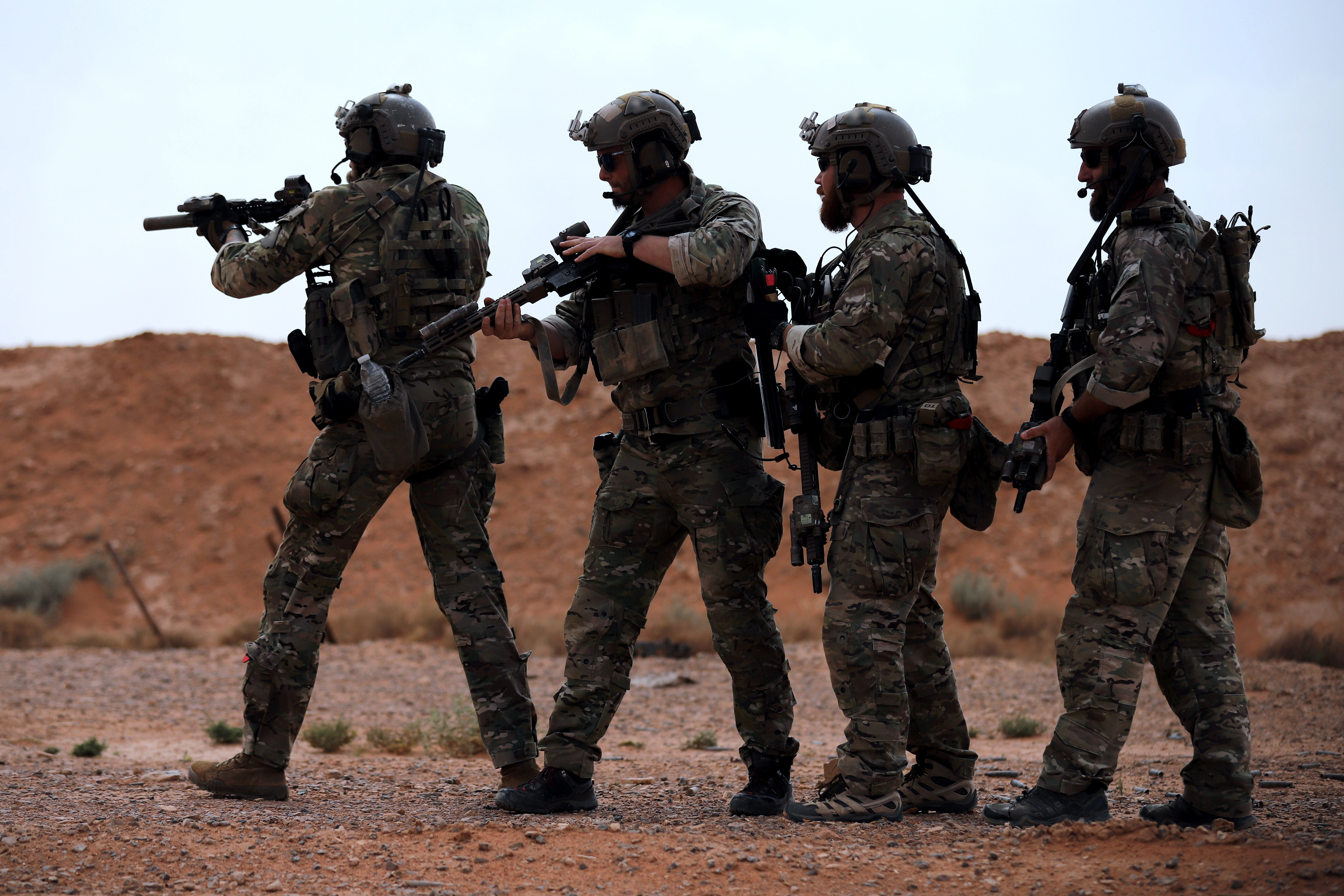 Green Berets prepare to breach an entryway during a readiness exercise near At-Tanf Garrison, Syria, April 25, 2020. Coalition and partner forces regularly train on tactics and various weapon systems in an enduring effort to defeat of Daesh in southern Syria. Photo altered for security reasons. (U.S. Army photo by Staff Sgt. William Howard)